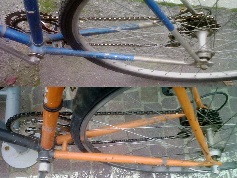 Chain drive of two bicycles both double row, while there are 5 pinions for the bike up and 6 for the bike down. The gear ratio between the two bicycle uses a different philosophy, the bike at the top has a high variation between the sprockets, while the crowns do not vary significantly, in this configuration using the transmission primarily through the sprockets, while the crowns are intended primarily for the type of use of the bike such as plain, or climb very steep climb. The bicycle bottom uses of the pinions very similar between them and crowns very different, this configuration makes sure that you must use the change in the progressive and complete, initially with the crown small and the large sprocket, climb ratio with sprockets, once inserted the smallest sprocket to increase the ratio you have to go to the large chainring and the largest cog, this allows for many useful reports with few toothed gears, but makes use less practical.